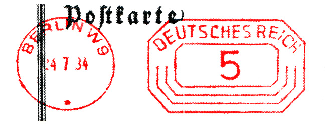 Meter stamp catalog image, Germany type PV1